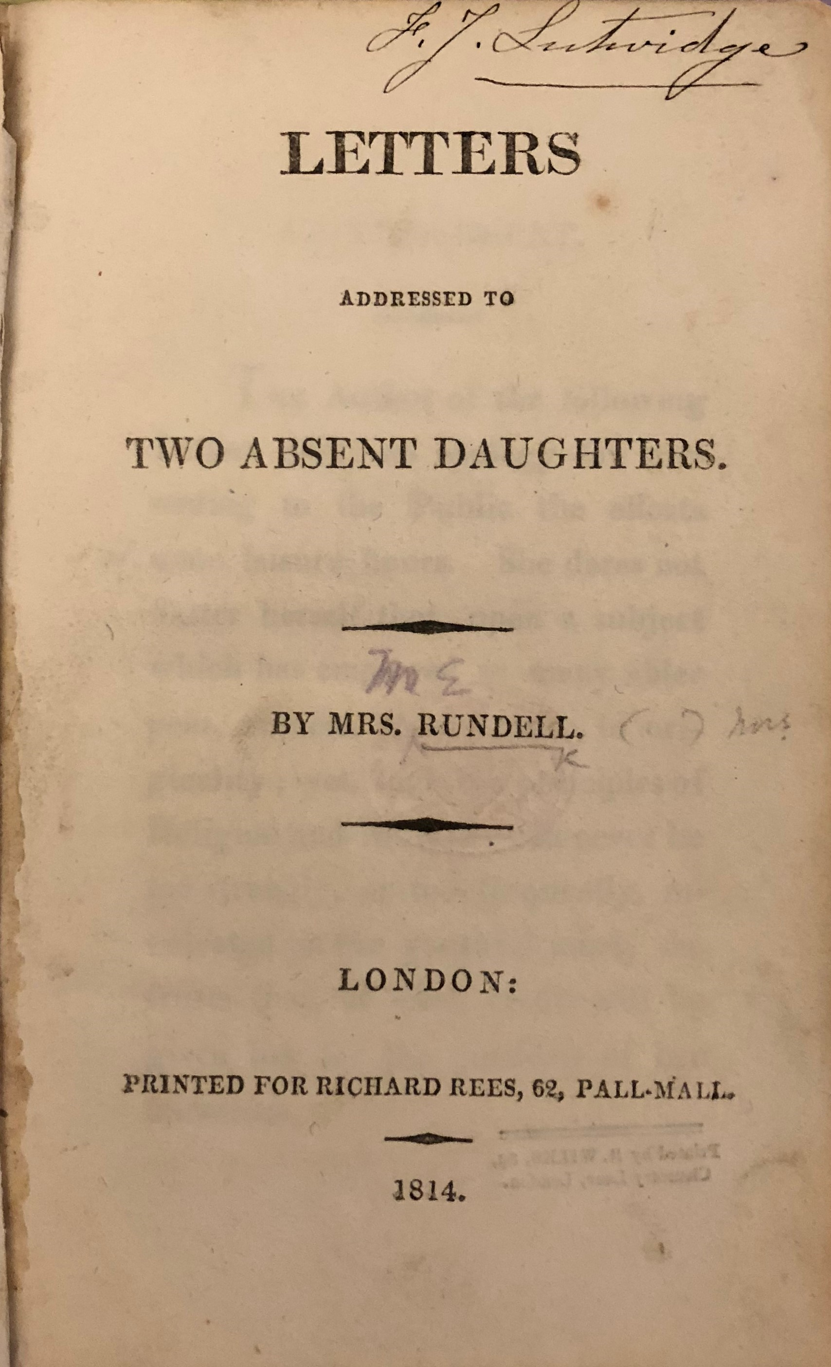 Title page of "Letters Addressed to Two Absent Daughters" by Maria Rundell